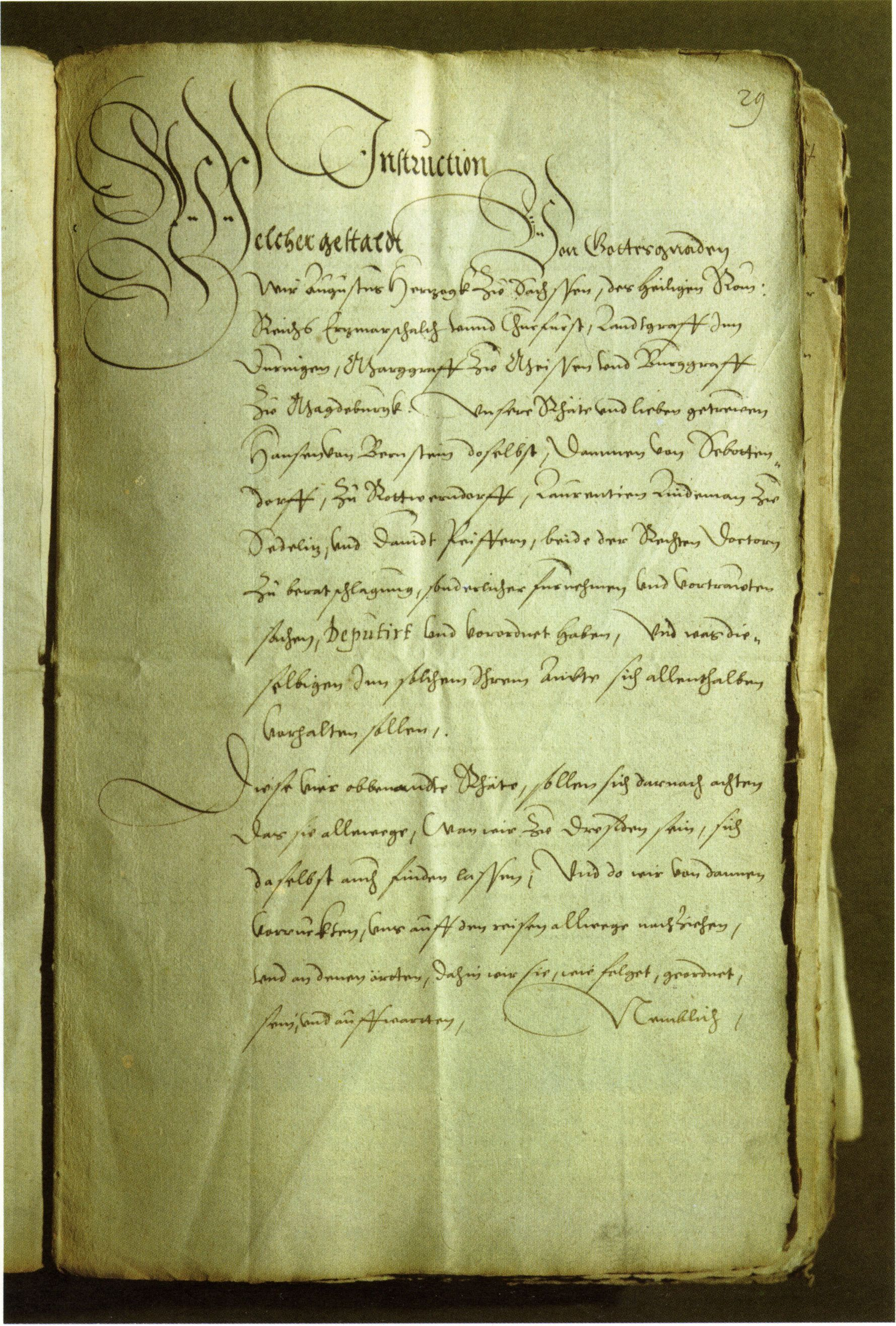 Augustus, Elector of Saxony, Instruction for the privy councils. Staatsarchiv Dresden.